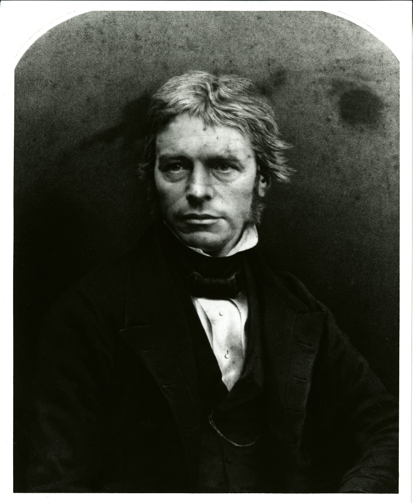 Michael Faraday (1791-1867), a chemist and physicist at the Royal Institution of Great Britain, discovered electromagnetic induction at the same time, but independently of first Secretary of the Smithsonian Institution Joseph Henry.